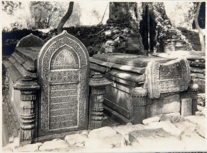 The grave of Maulana Malik Ibrahim, who died in 1419